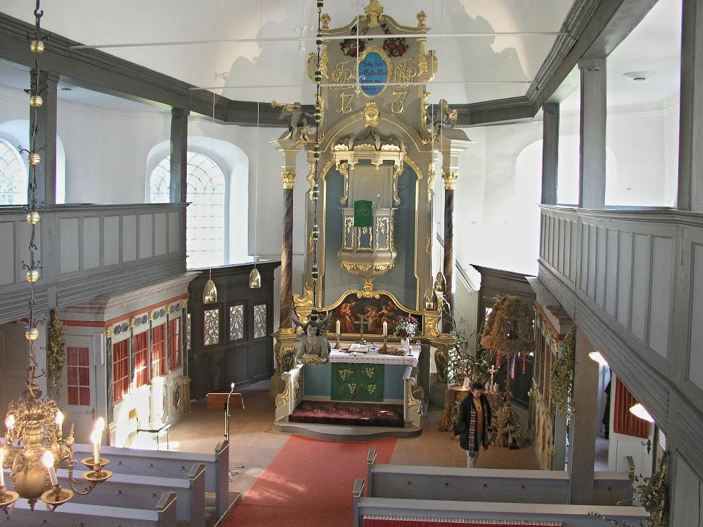 Breitenberg,Schleswig-Holstein, Germany: church,interior, photo 2007